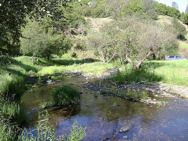 A creek running through the area around Fiddletown in Amador County